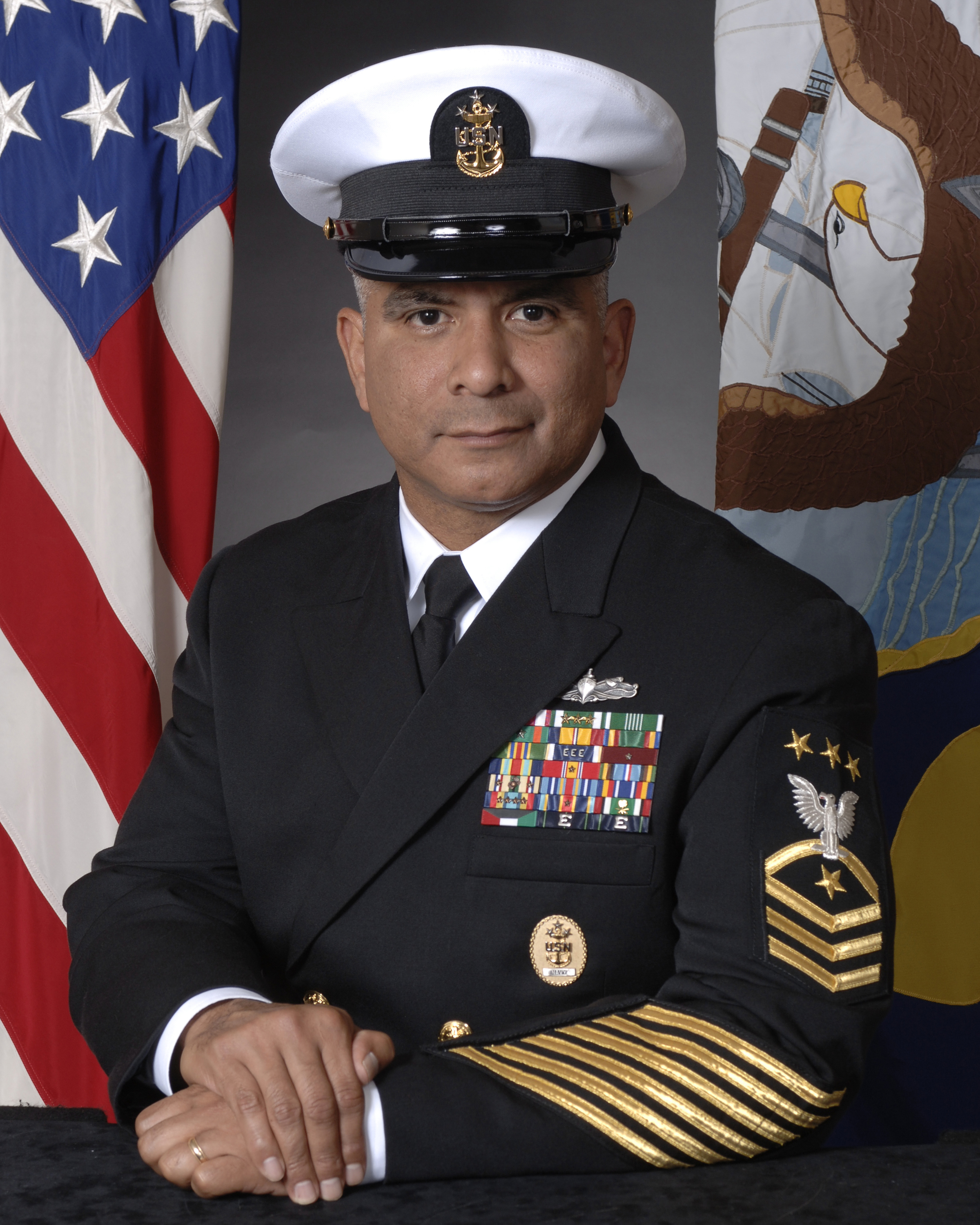 MCPON Joe R. Campa, Navy's highest NCO.